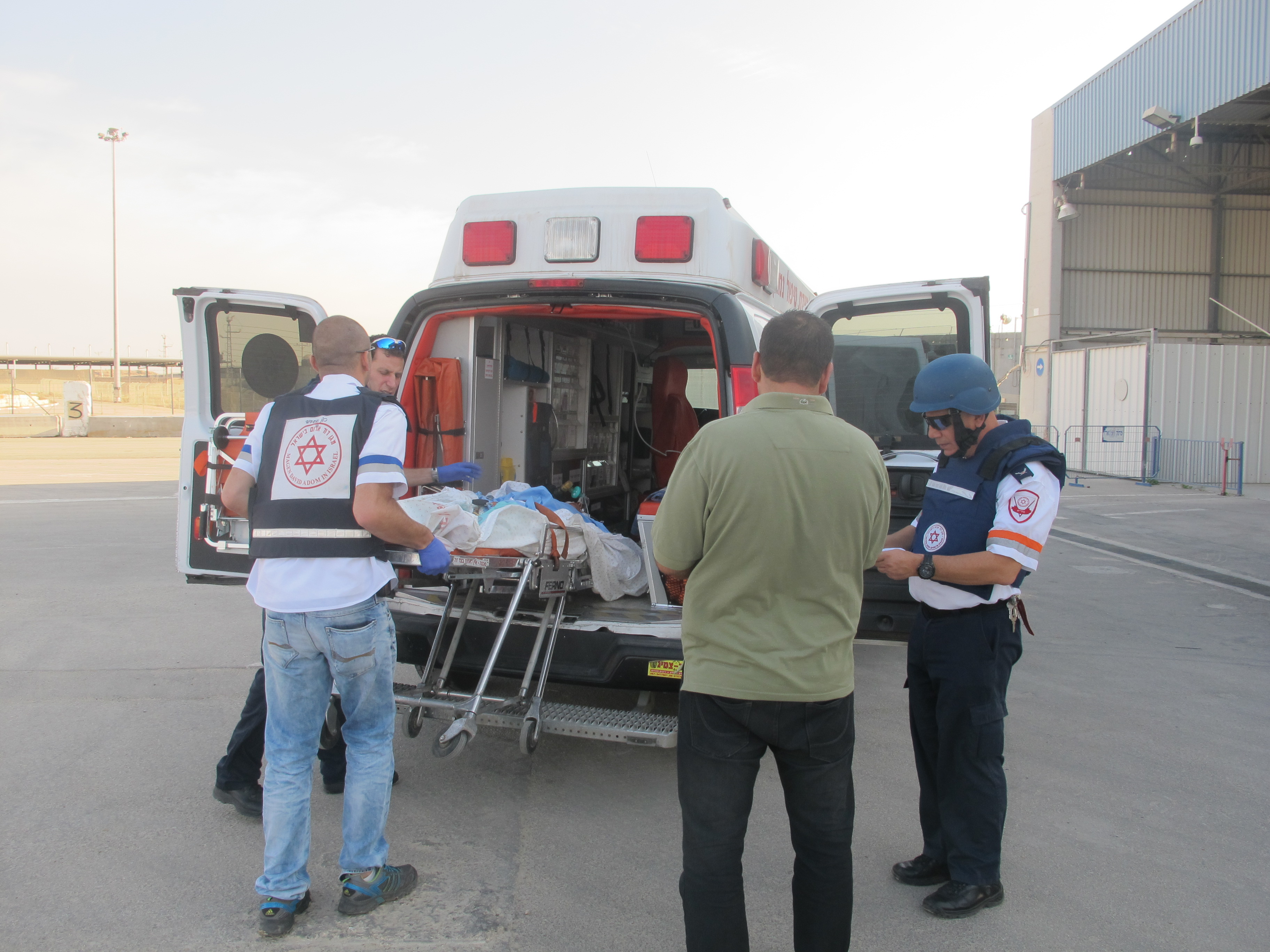 October 24, 2012 Based on an ongoing agreement with COGAT, 3 Palestinians from the Gaza Strip crossed into Israel to receive medical treatment for their illnesses. This happened while Israel was hit today with over 70 rockets in only 14 hours. The Israel Defense Forces Facebook • blog • Twitter